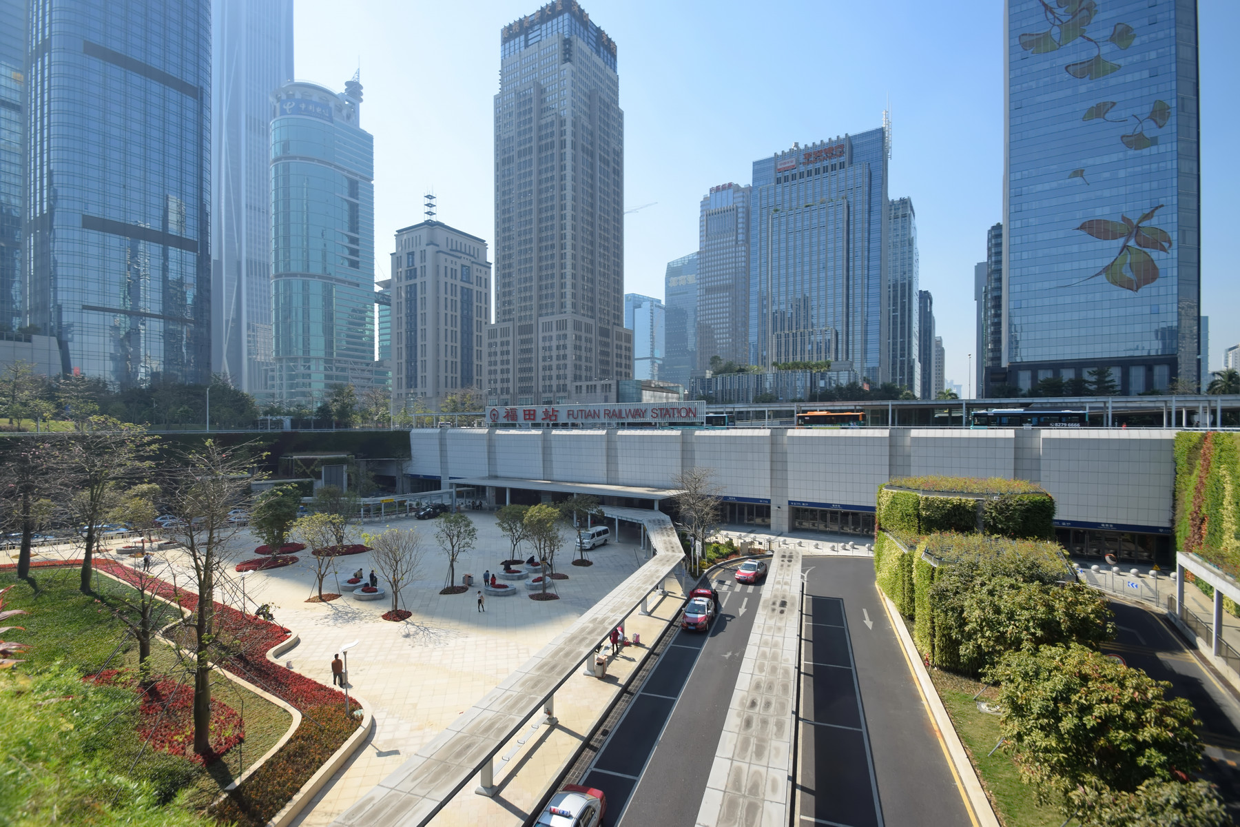 Futian Railway Station, Guangzhou-Shenzhen-Hong Kong High-Speed Railway